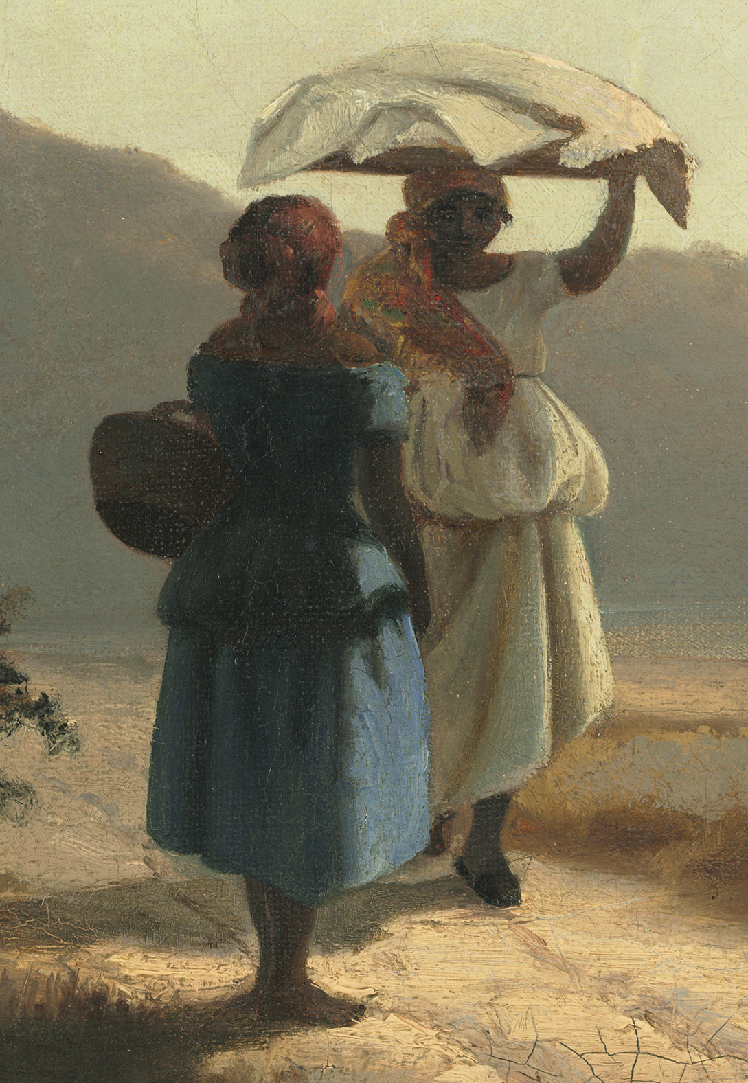 two women, cropped detail